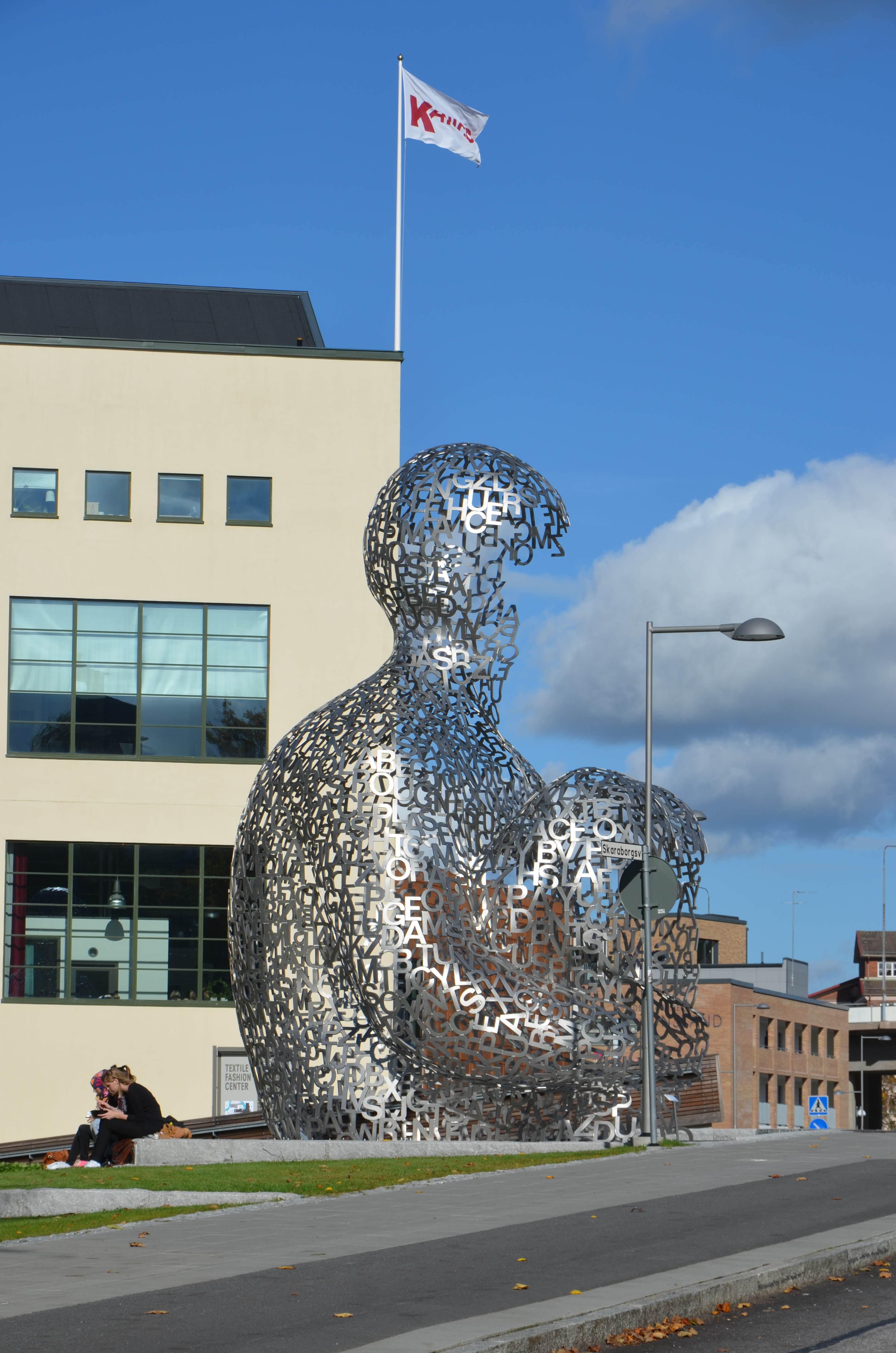 House of Knowledge by Jaume Plensa outside Textile Fashion Center in Borås, Sweden